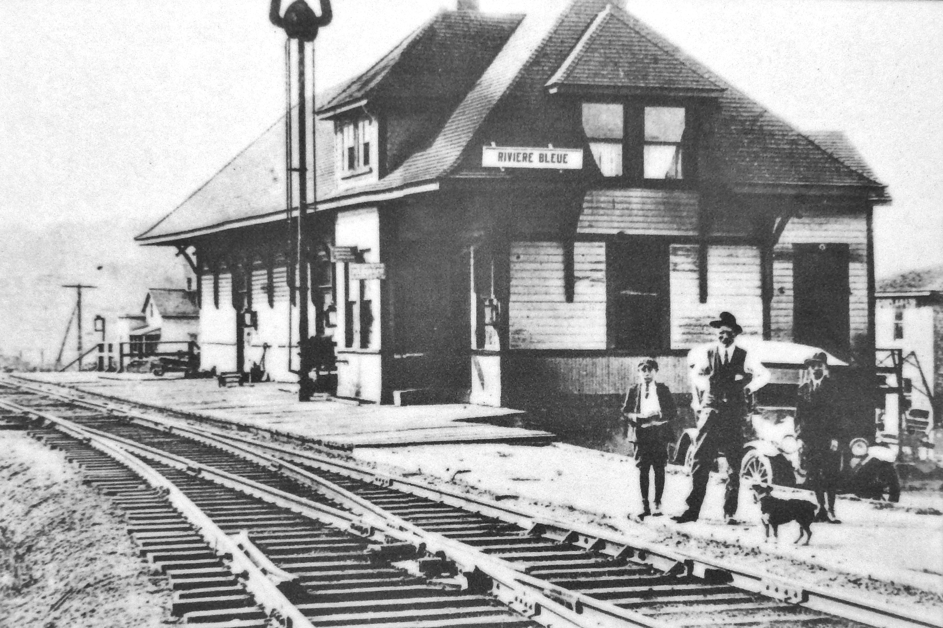 Rivière-Bleue Train Station, Rivière-Bleue, Québec, Canada